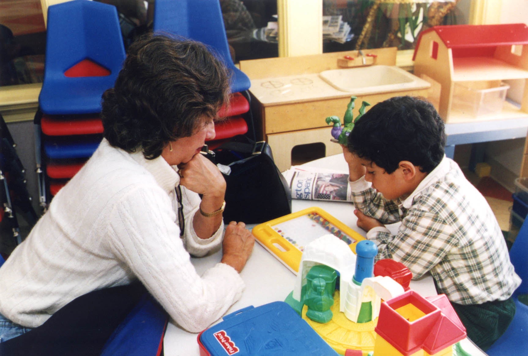 "Teacher Appreciation" featured photo. Place unknown. Probably a Kindergarten or Special Education teacher insturcting a student. According to the US Census Bureau Facts for Features, as of 2004, there were 6.2 million teachers in the US and the 71% of which were women. The national average for annual salary for public elementary and secondary school teachers was $44,700; With the highest average of $54,300 in California and the lowest of $31,300 in South Dakota.